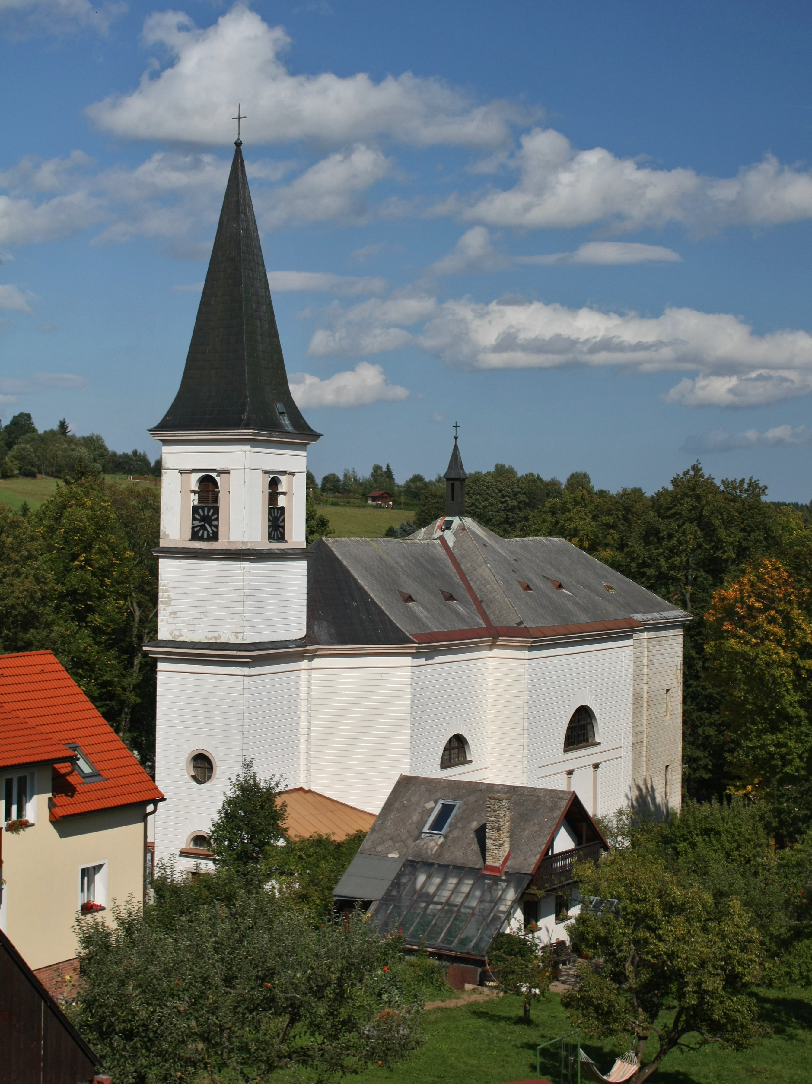 Stachy, Prachatice District, Czech Republic Object location49° 06′ 07″ N, 13° 39′ 53″ E